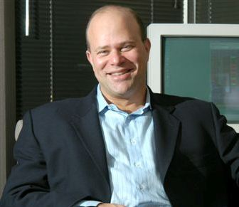 Image of David Tepper of Appaloosa Management